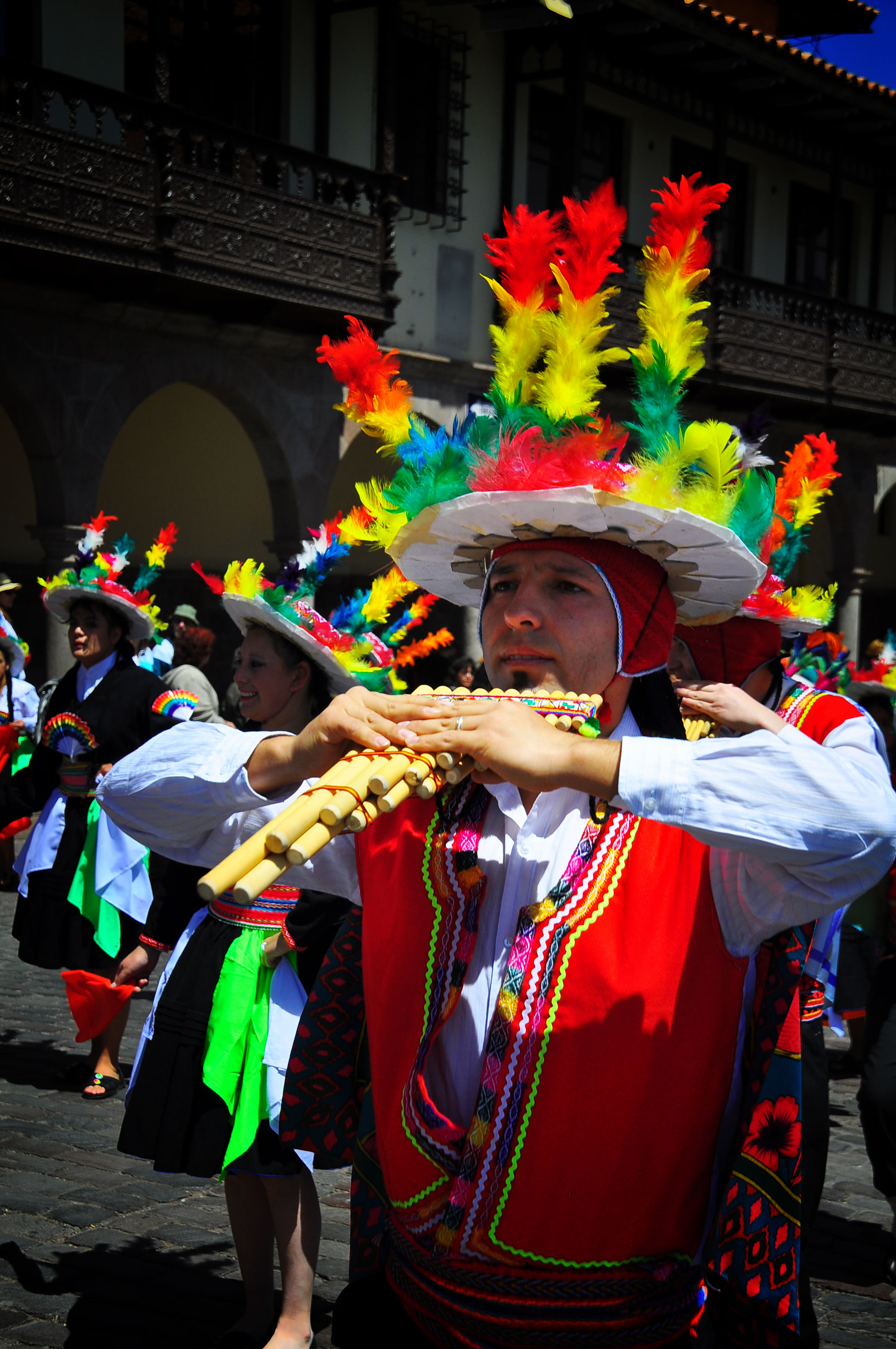 Sound of the Andes, Cuzco